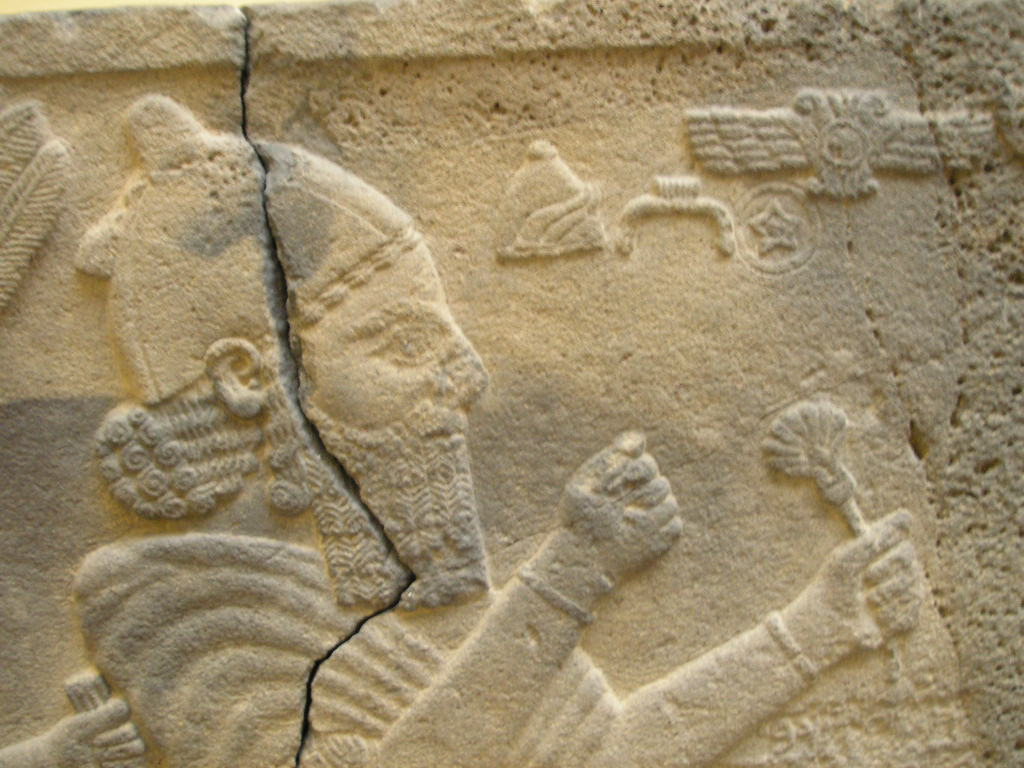 Ortohstat with inscription. King Barrekub praying in front of divine symbols. The inscription is about the construction of a palace.Late Hittite period (Aramaean). 8th century BCE. Sam'al (Sinjerli). Basalt, Inv. No. 7697.